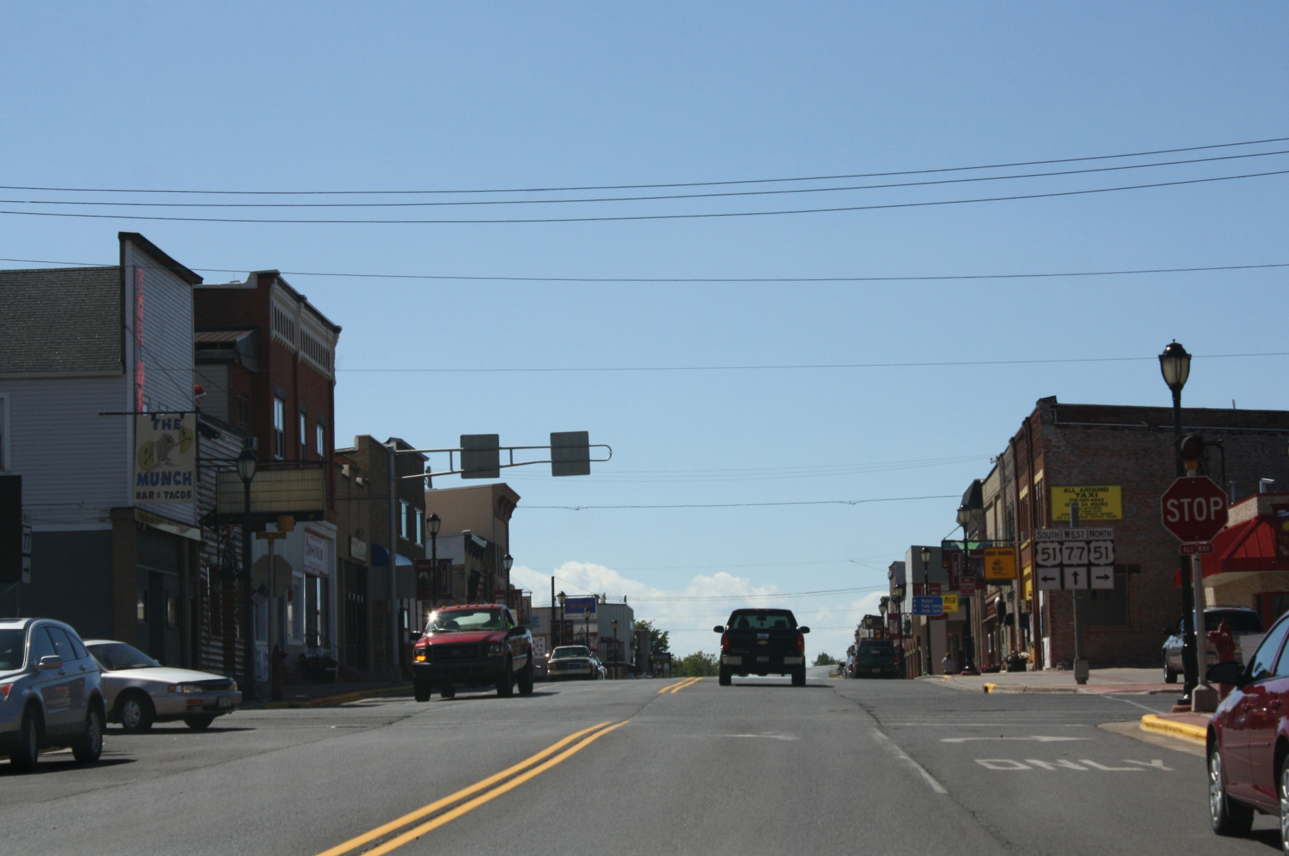 Looking west at downtown Hurley, Wisconsin. The west terminus of Wisconsin Highway 77 is straight at this intersection.